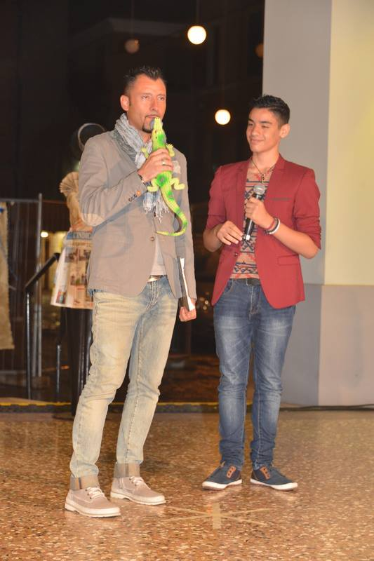 Sebastian Calleja during the Microfono D'Oro competition in Mirandola Italy